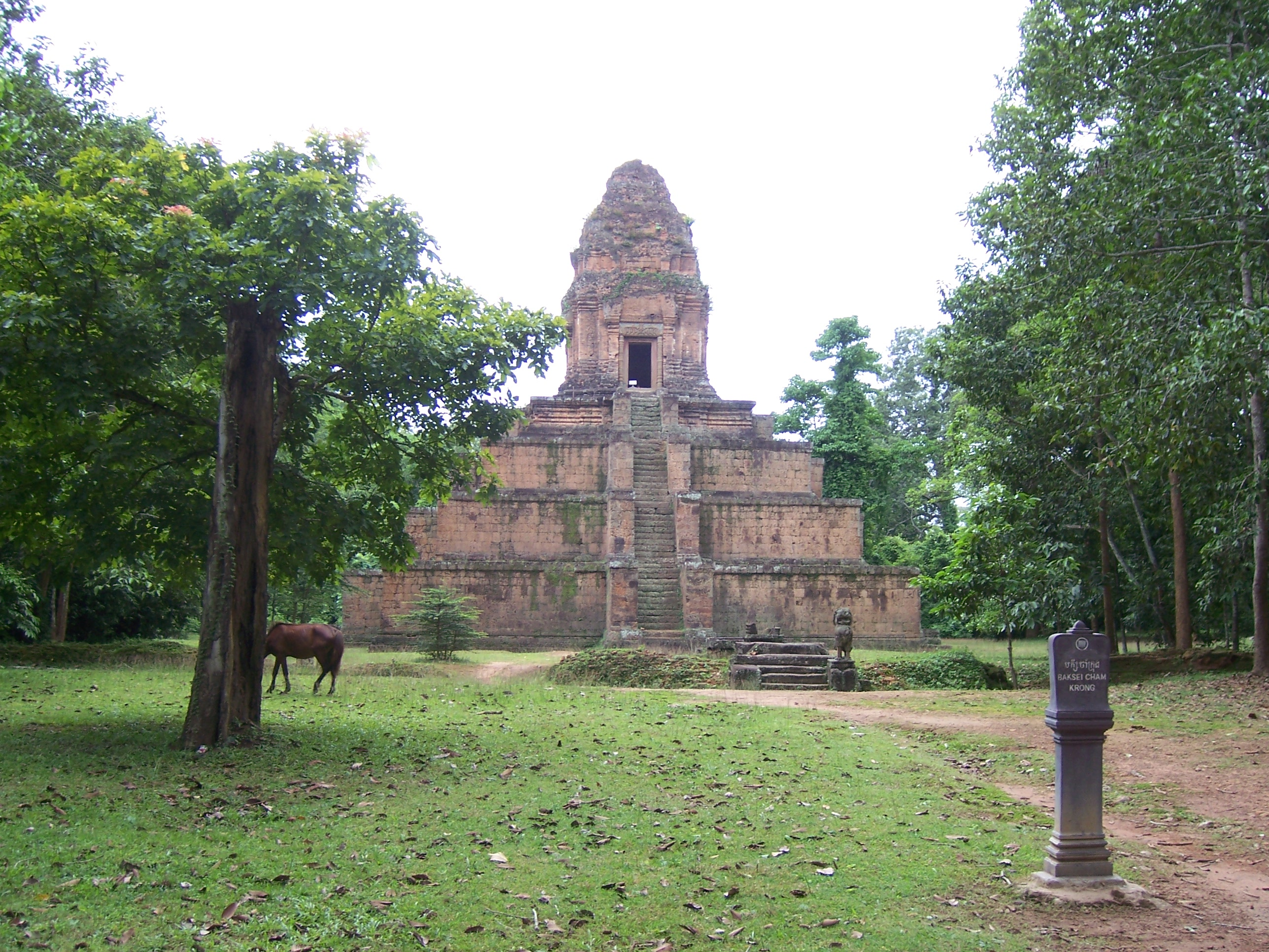 Angkor temples, north of Siam Reap, Cambodia